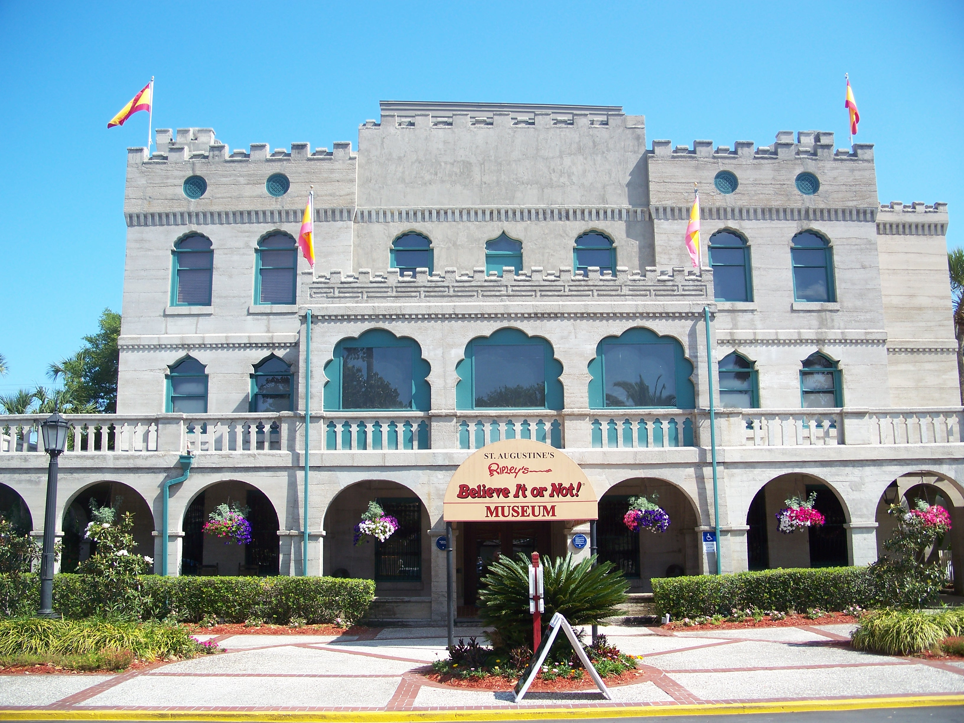 St. Augustine, Florida: Castle Warden, home of the first Ripley's Believe It or Not! Museum, and part of the Abbott Tract Historic District